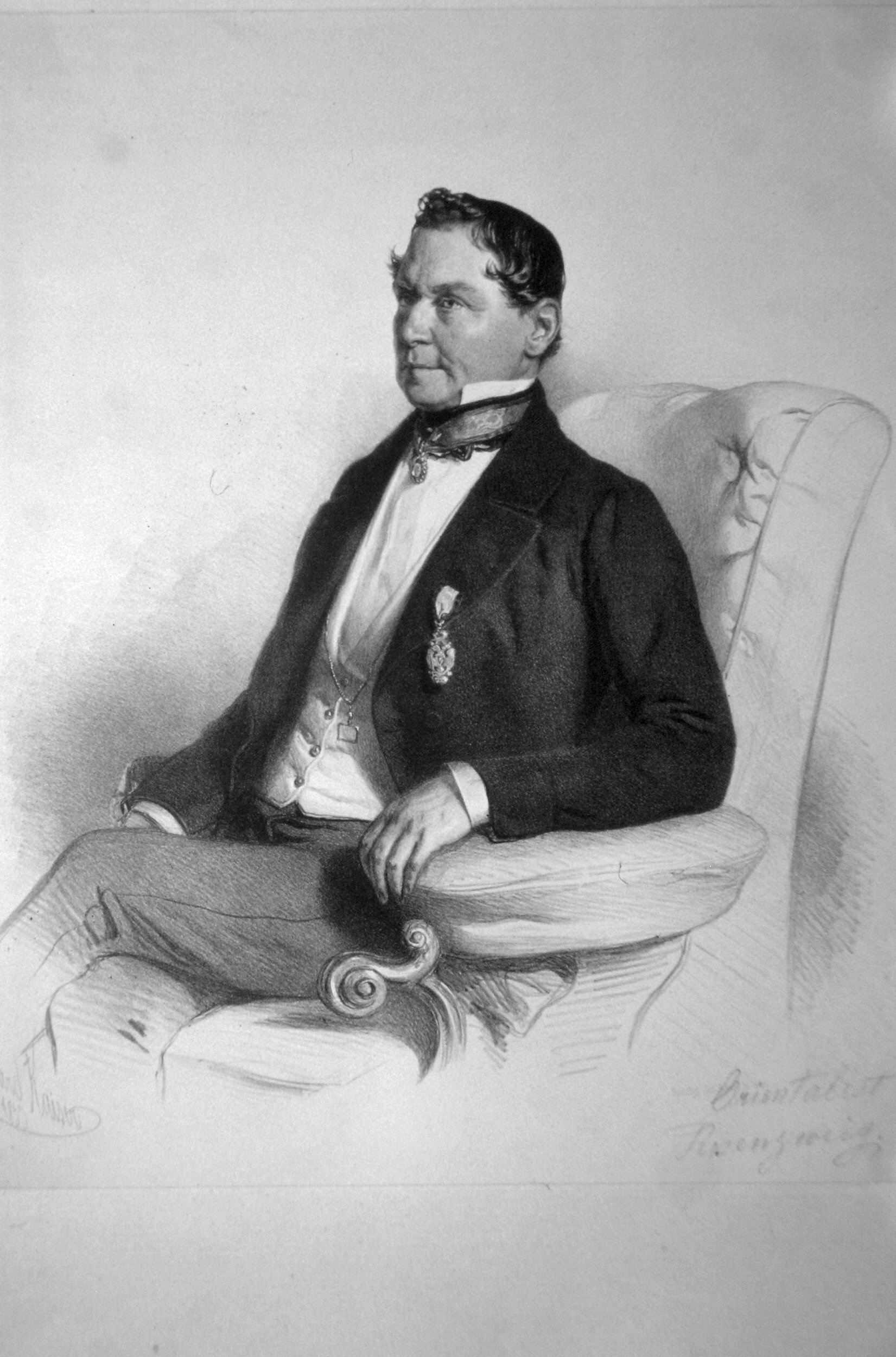 Vinzenz von Rosenzweig (1791-1865), Orientalist Lithograph by Eduard Kaiser, 1855